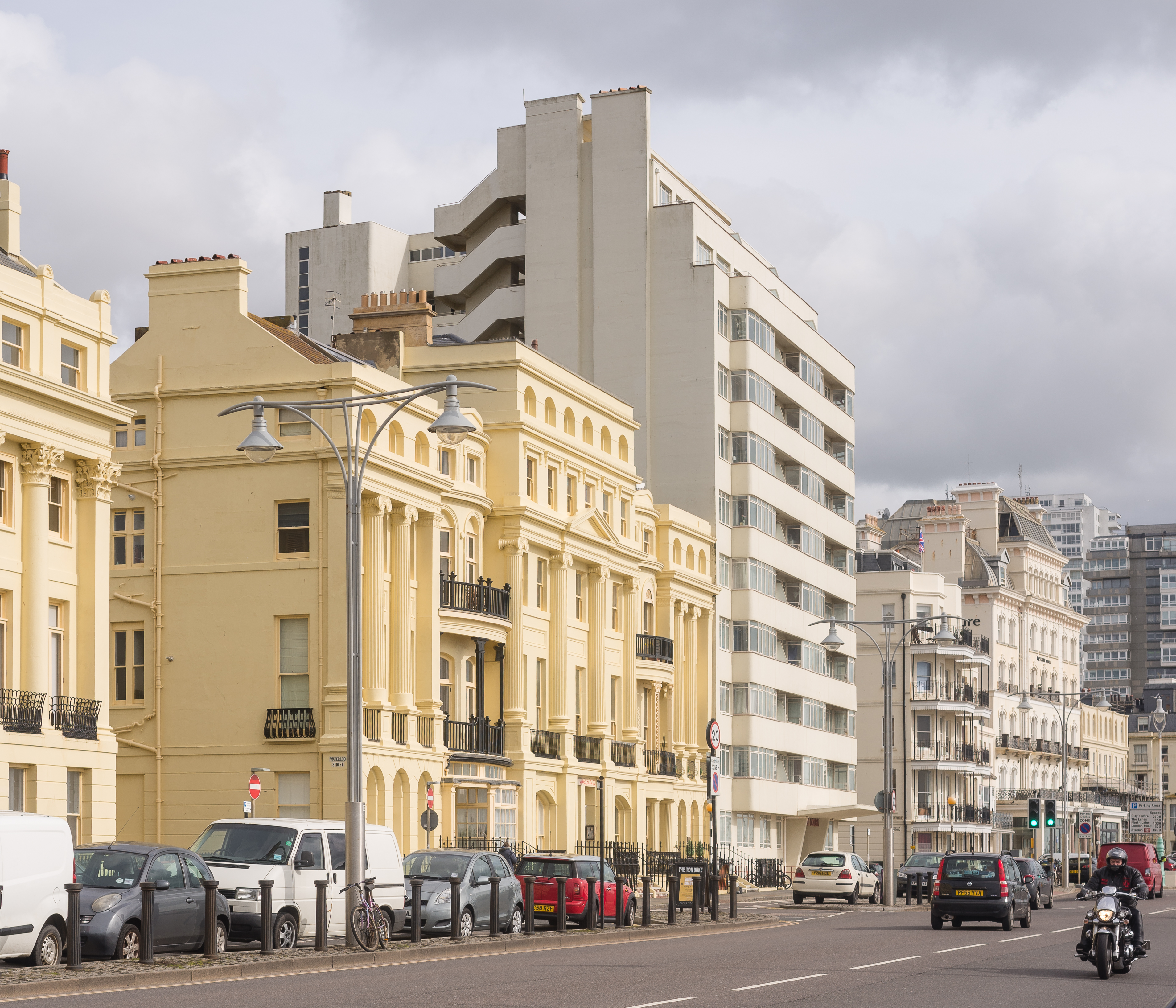 Buildings on the seafront (Kings road) in Brighton, East Sussex. From left the historic Regency housing development Brunswick estate and the modernist Embassy Court.